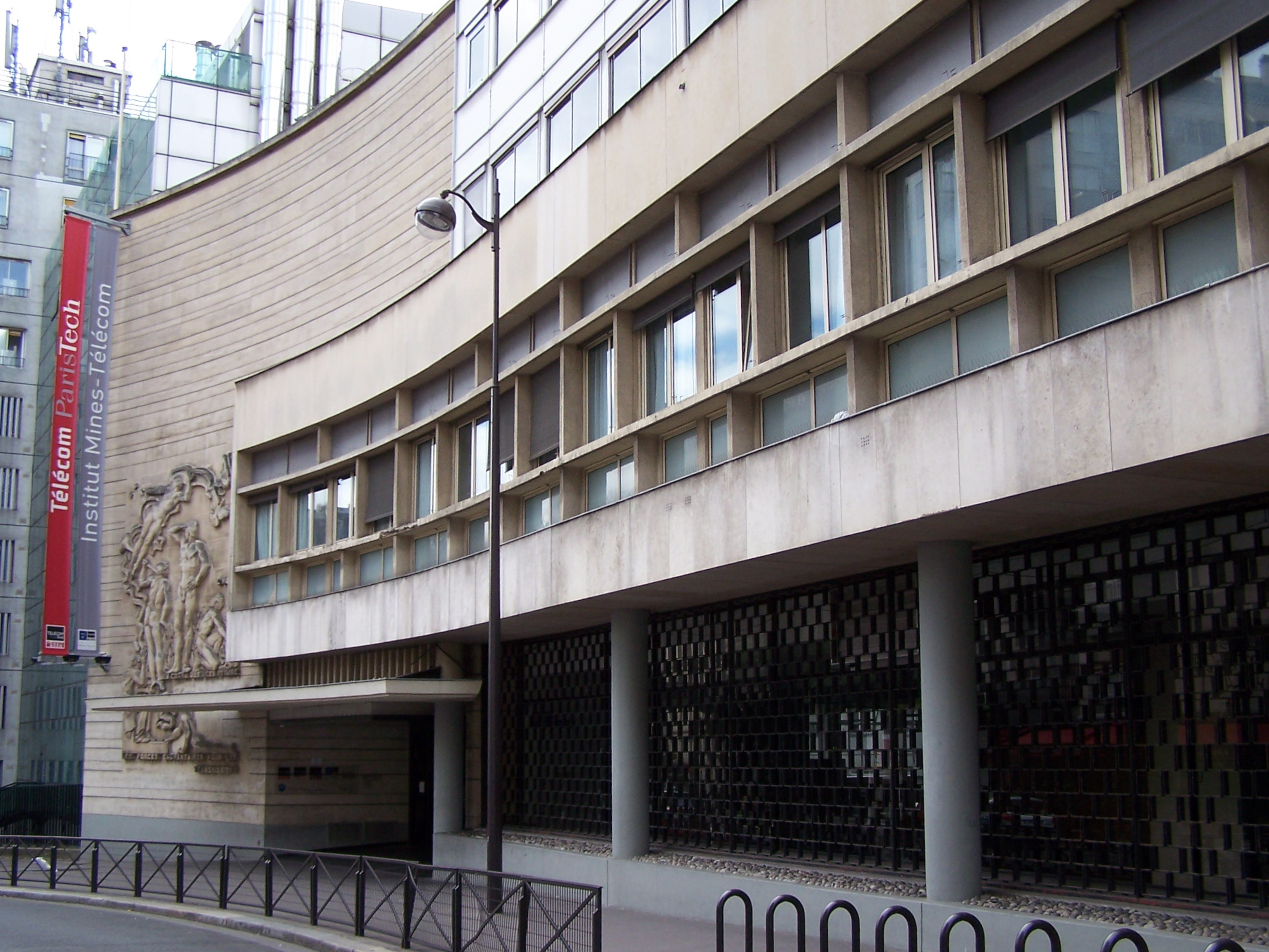 Main entrance of the Grande École Télécom ParisTech, ex-École nationale supérieure des télécommunications (ENST), at rue Barrault in Paris, France.